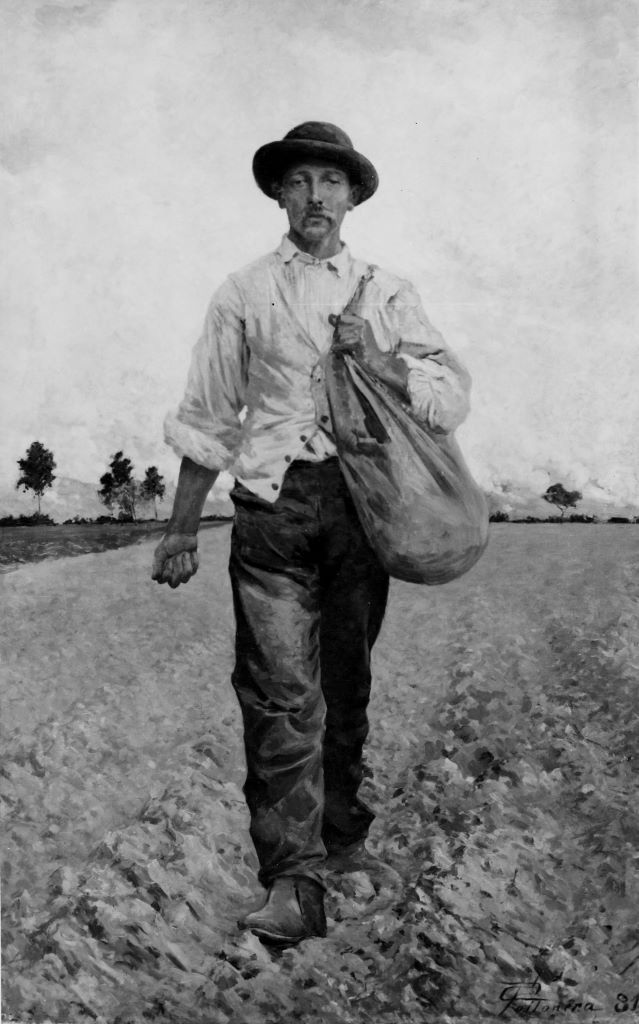 Black-and-white photograph of a painting by Carlo Pollonera (oil on canvas 200 cm high x 127 cm wide) titled "Il seminatore" (The sower). The original is in the Galleria Civica d’Arte Moderna e Contemporanea, Turin, Italy. Listed as no. 17 in the artist's biography by A. Pico (1998); exhibited 1882, 1884, 1924, 1974.